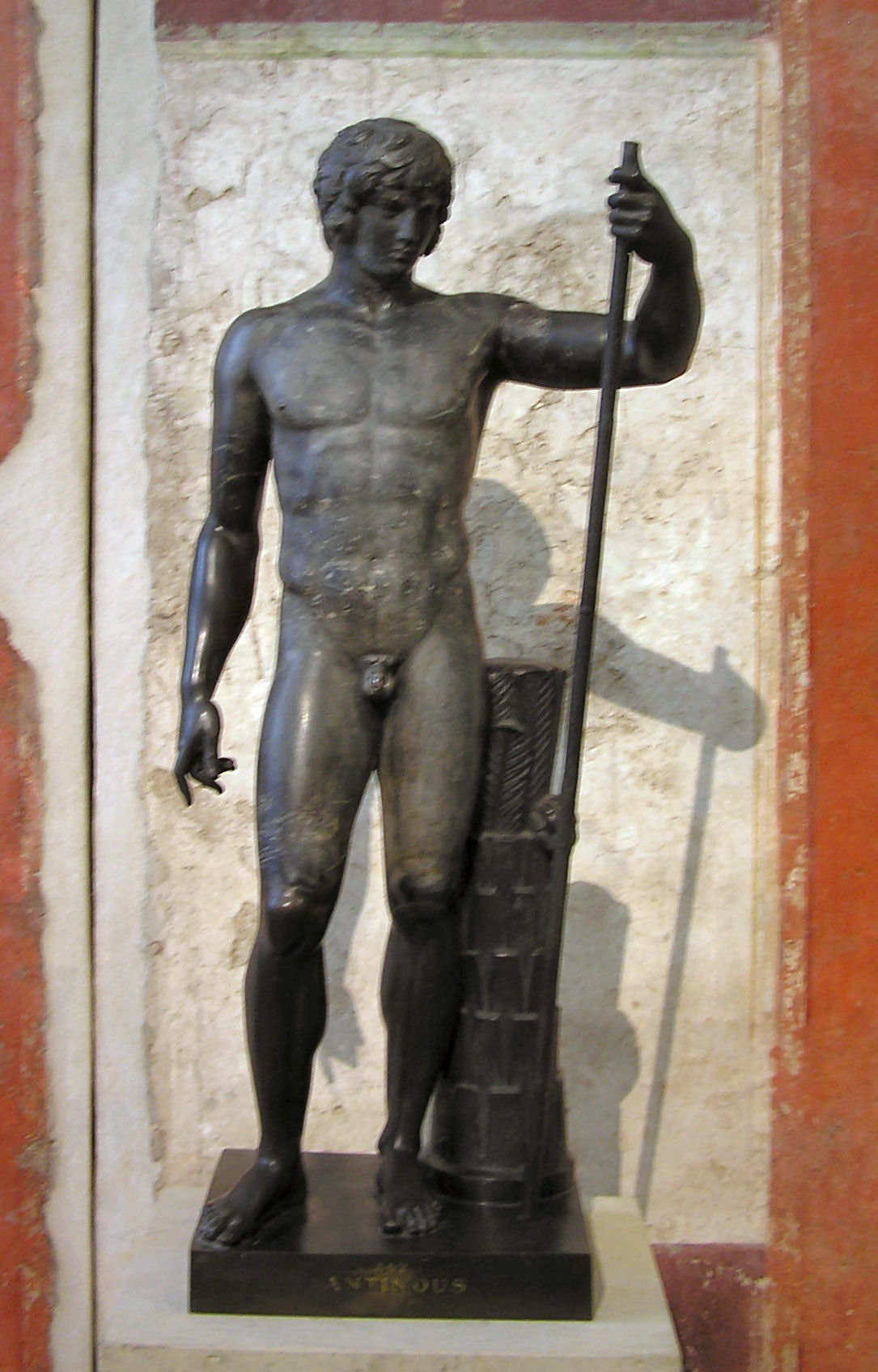 (Berlin, Altes Museum): Antinous as Dionysos, 130-138 AC